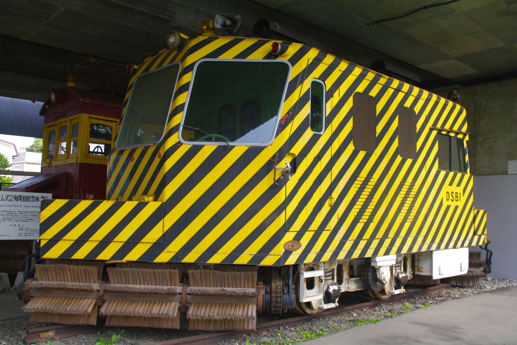 Sapporo streetcar DSB1.